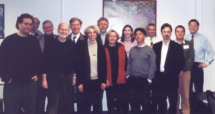 Participants at Budapest meeting, December 1, 2001. Left to right: Michael Eisen, Stevan Harnad, Jean-Claude Guédon, Rick Johnson, Fred Friend, Victoria Reich, Jan Velterop, Monika Elbert, Melissa Hagemann, István Rév, Manfredi La Manna, Peter Suber, Sidnei de Souza, Leslie Chan. Not pictured is Darius Cuplinskas.